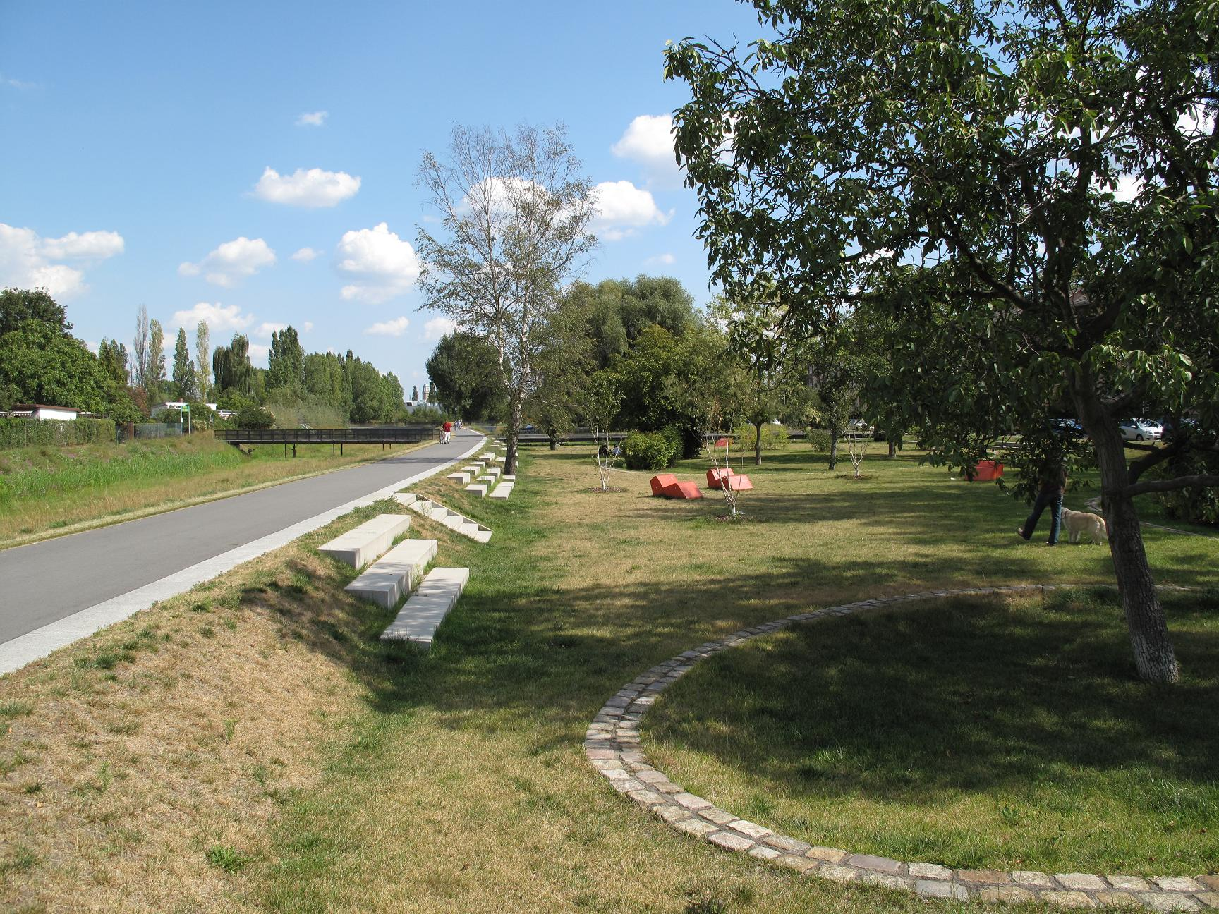 Sunken garden at the Bullengraben. The Bullengraben (german for: bullditch) is a drainage channel to the river Havel in the localities Staaken, Wilhelmstadt and Spandau in the borough Berlin-Spandau, Germany. In 2007 there was opened the green space Bullengraben (german: „Grünzug Bullengraben“) along the 4,5 kilometre long ditch.